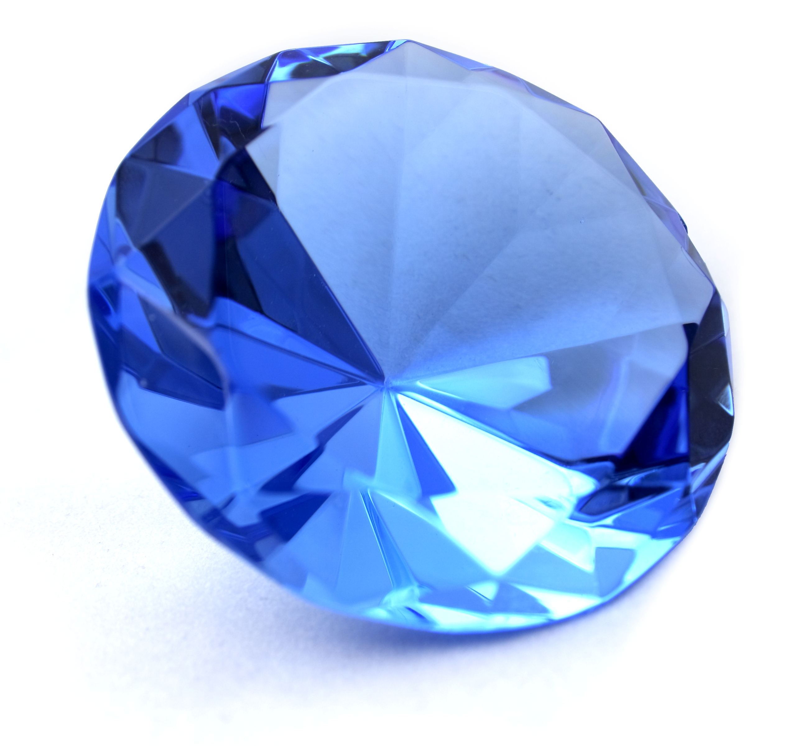 This is a sapphire gem.